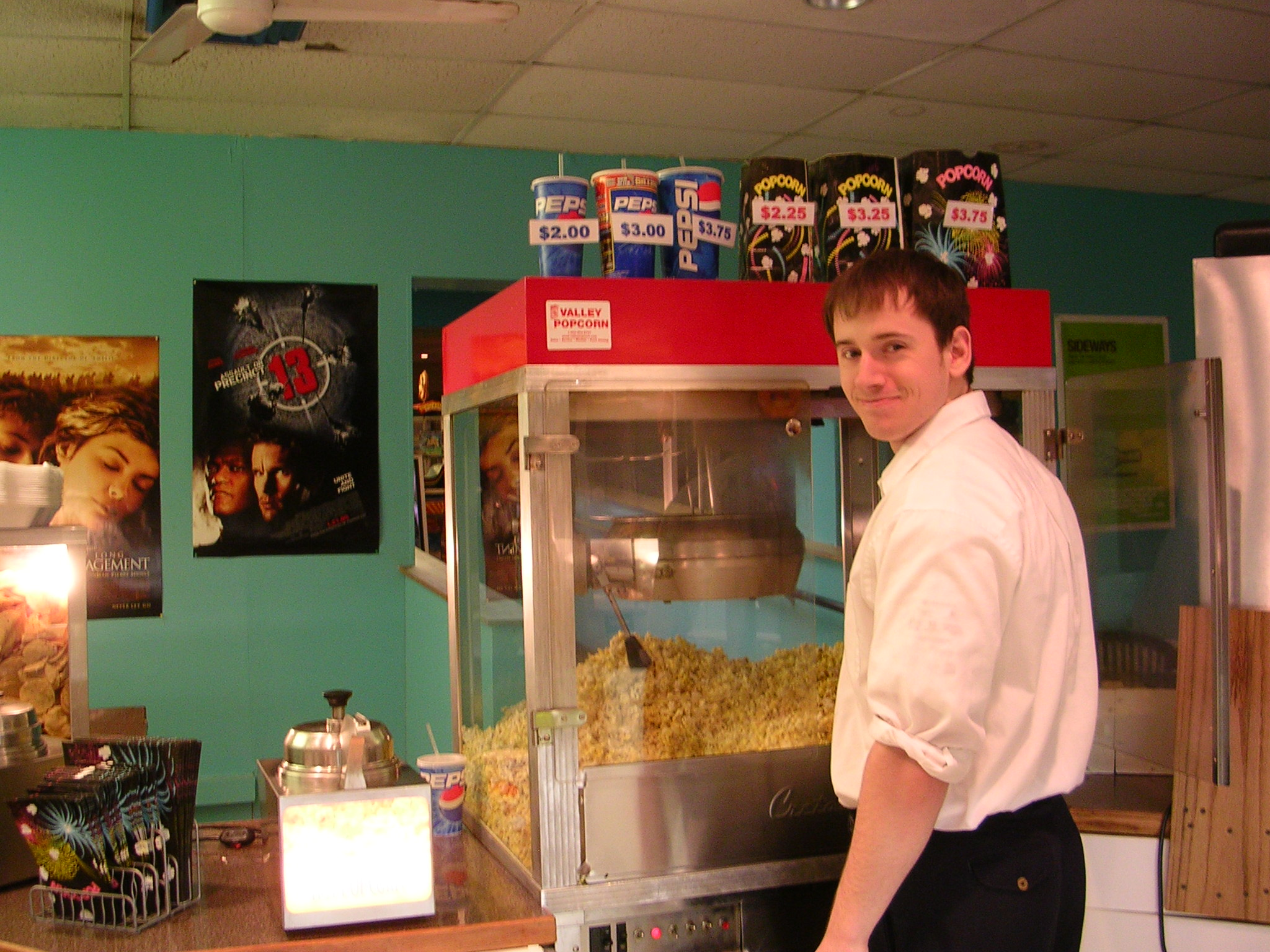 An employee at University Square Theatres grins happily, content in the knowledge that he provides his community great cinematic service.